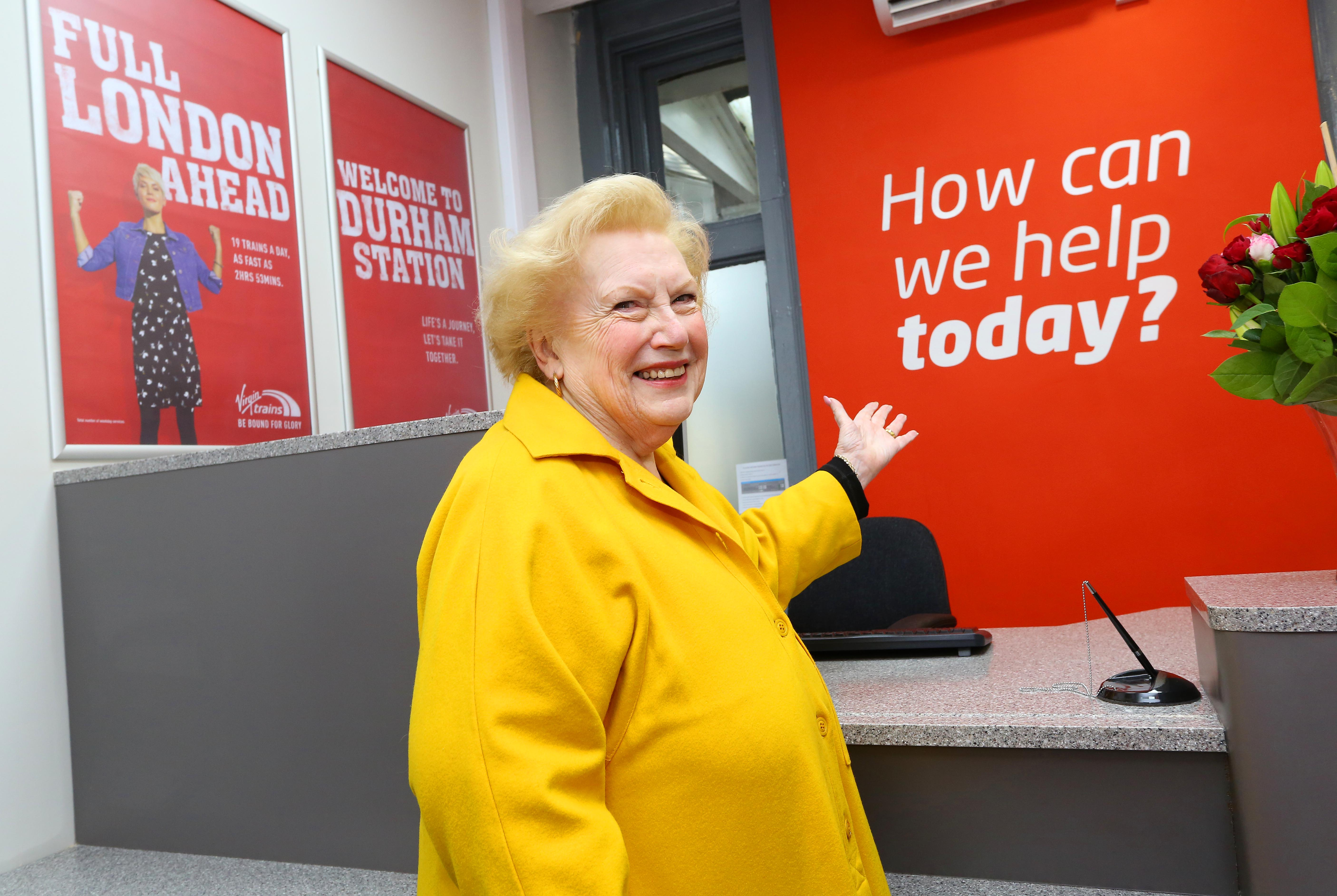 Denise Robertson opens the Durham railway station Customer Information Office. Original description: TV Star Denise Robertson opens the Durham Customer Information Office